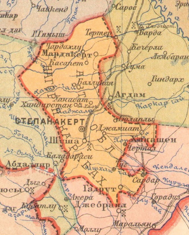 Map of NKAO within the borders of Azerbaijan SSR from the Atlas of 1928